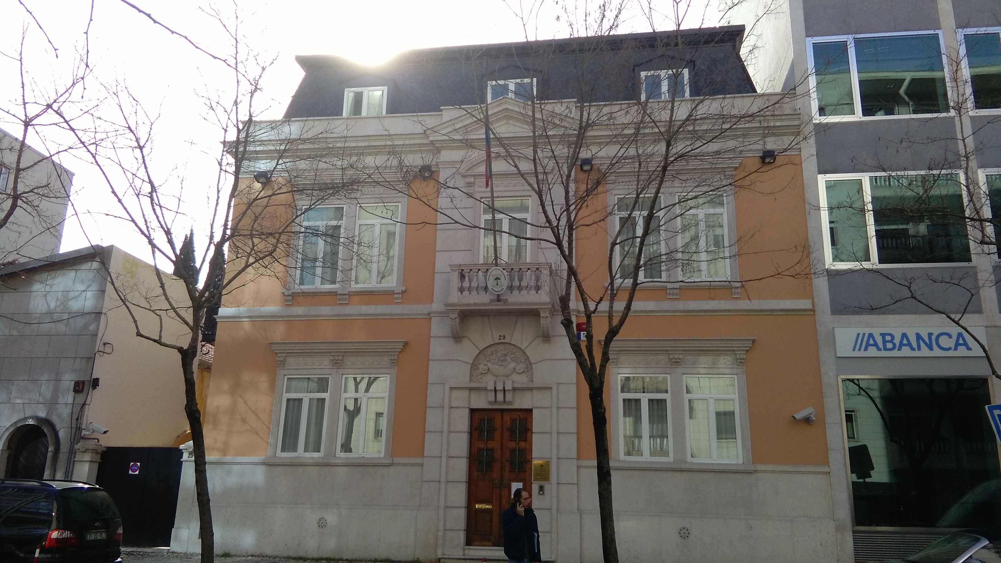 Outside view of the Embassy of the Republic of Equatorial Guinea in Lisbon, Portugal.